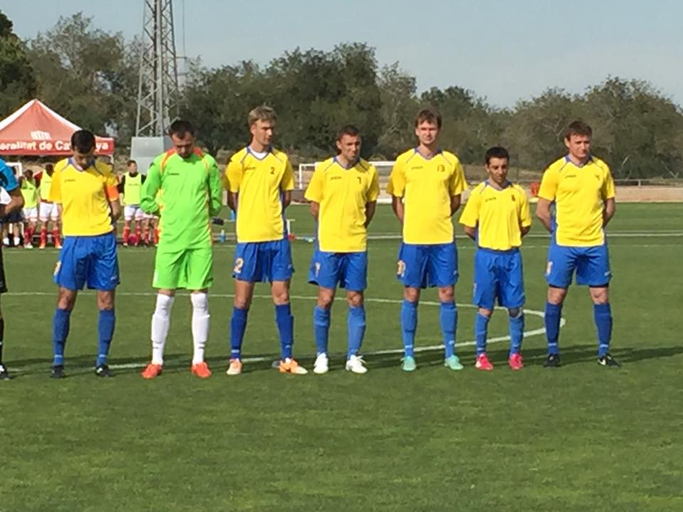 Photo taken at IFCPF Pre Paralympic Tournament Salou 2016 using personal iPhone.